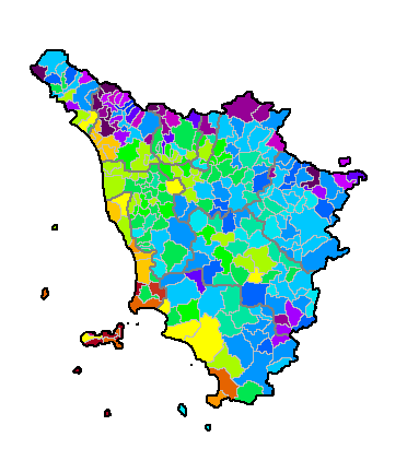 Map of degree days for Tuscany